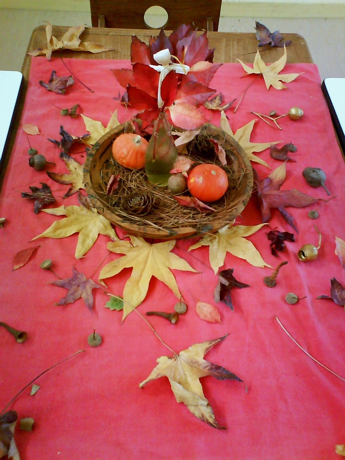 Autumn mandala for the table at a Steiner (Waldorf) Playgroup. Included are leaves, gumnuts, acorns, small pumpkins, and a corn dolly in the centre. This playgroup operates at Moorleigh Community Centre, Melbourne, Australia.